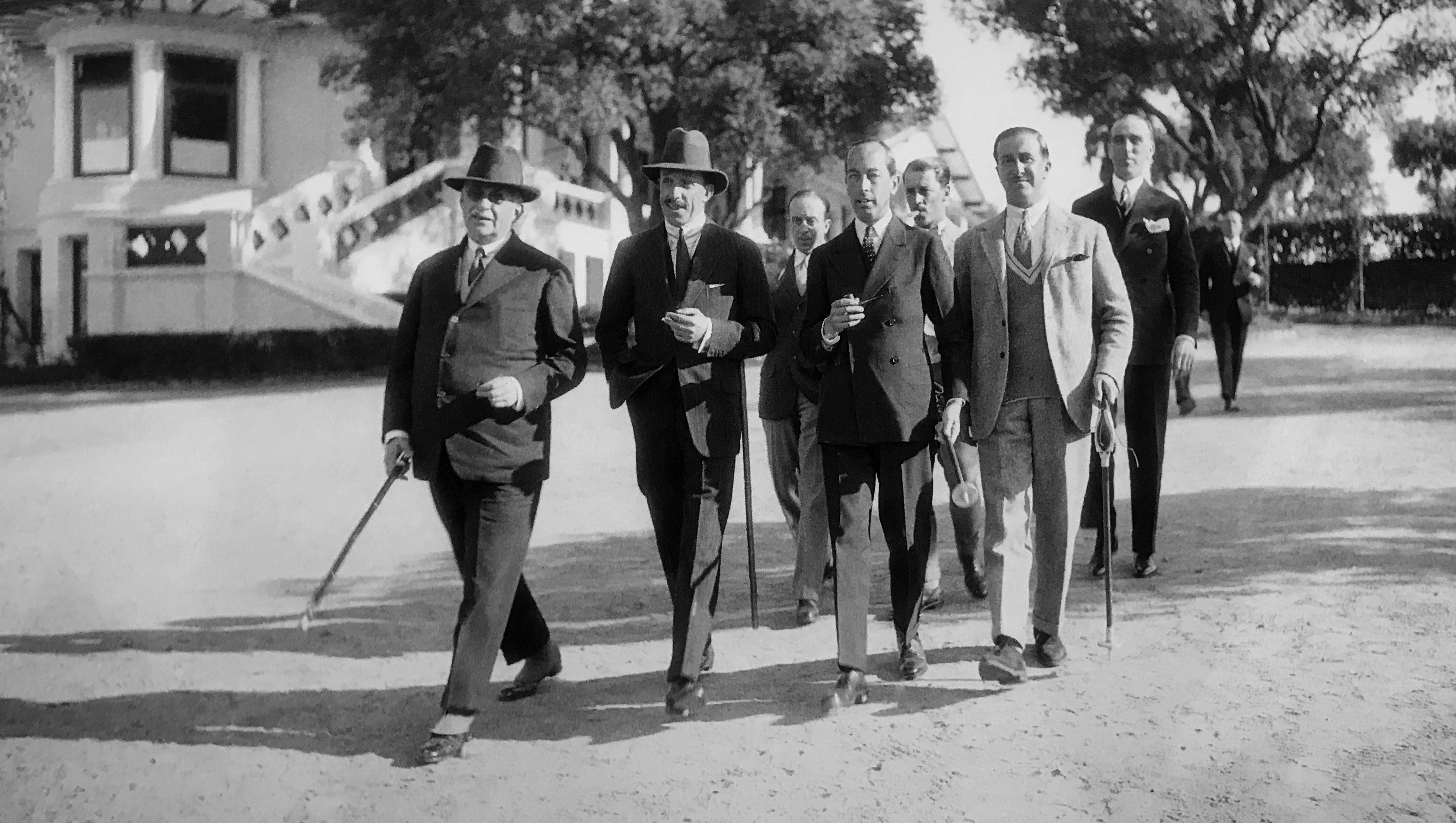 H.M. King Alfonso XIII during the Spain Golf Open celebrated at Real Club de la Puerta de Hierro in 1928. He is on his way to the course accompanied, from left to right, by General Miguel Primo de Rivera, the 9th Duke of Montellano, Joaquín Santos-Suárez y Jabat, later President of the club, the 8th Count of Yebes, Agustín Hernández Francés, iure uxoris Viscount of Altamira and Luis Arana